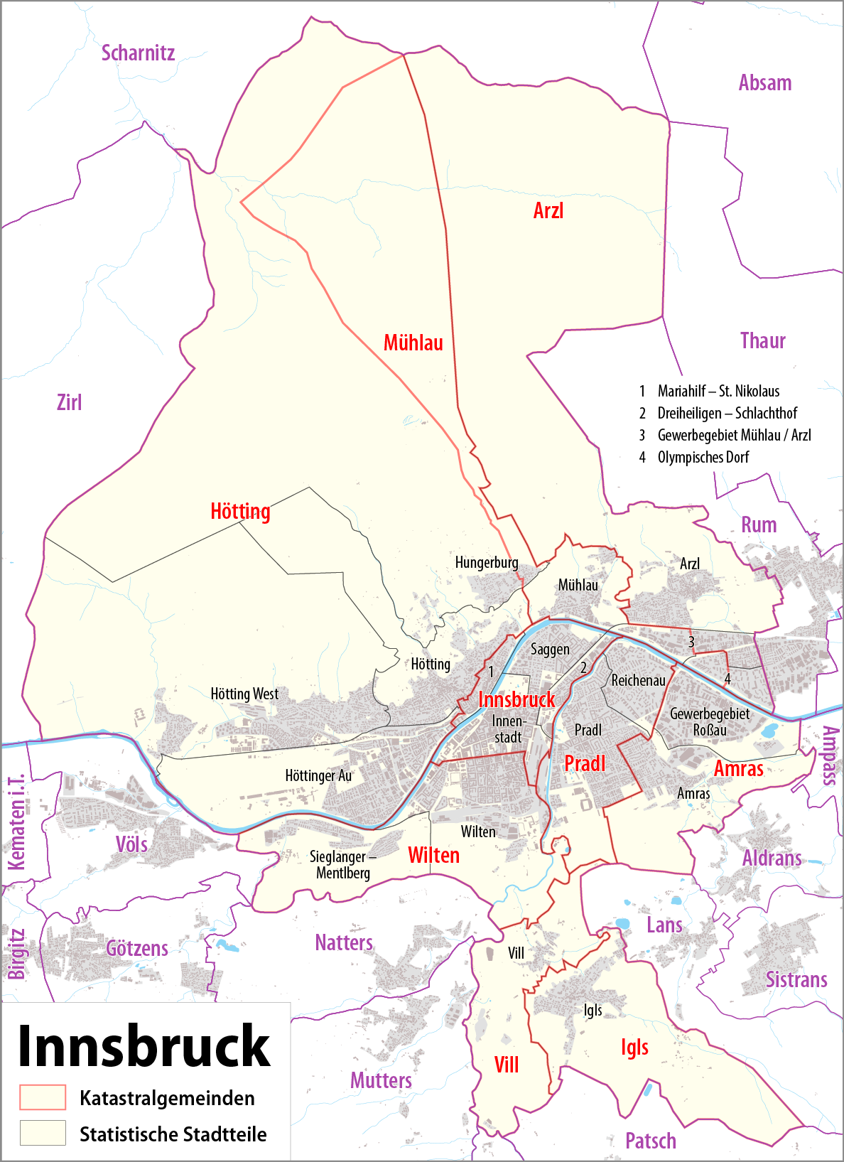 Map of Innsbruck: cadastral communities and statistical districts